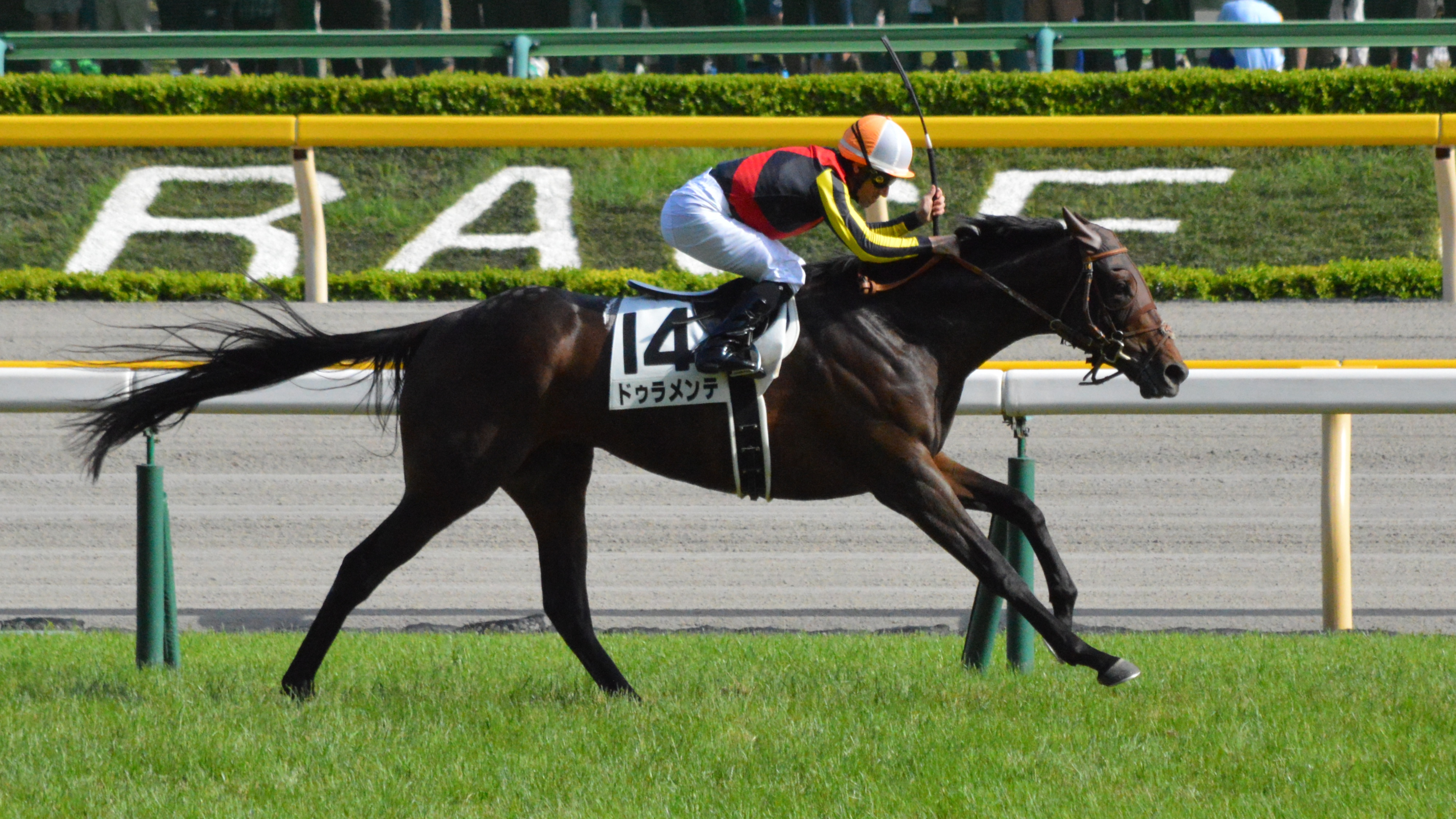 Japanese race horse Duramente at Tokyo racecourse. Tokyo (JPN) 31 May 2015Tokyo Yushun (Japanese Derby) (Grade 1) (3yo Colts & Fillies) (Turf) 1m4f Firm RankHorse NameOddsAgeWgtJockeyTrainer1stDuramente (JPN)9/10FC39-0Mirco DemuroNoriyuki Hori2ndSatono Rasen (JPN)177/10C39-0Yasunari IwataYasutoshi Ikee3rdSatono Crown (JPN)53/10C39-0Christophe-Patrice LemaireNoriyuki Hori4th - 18th/omission